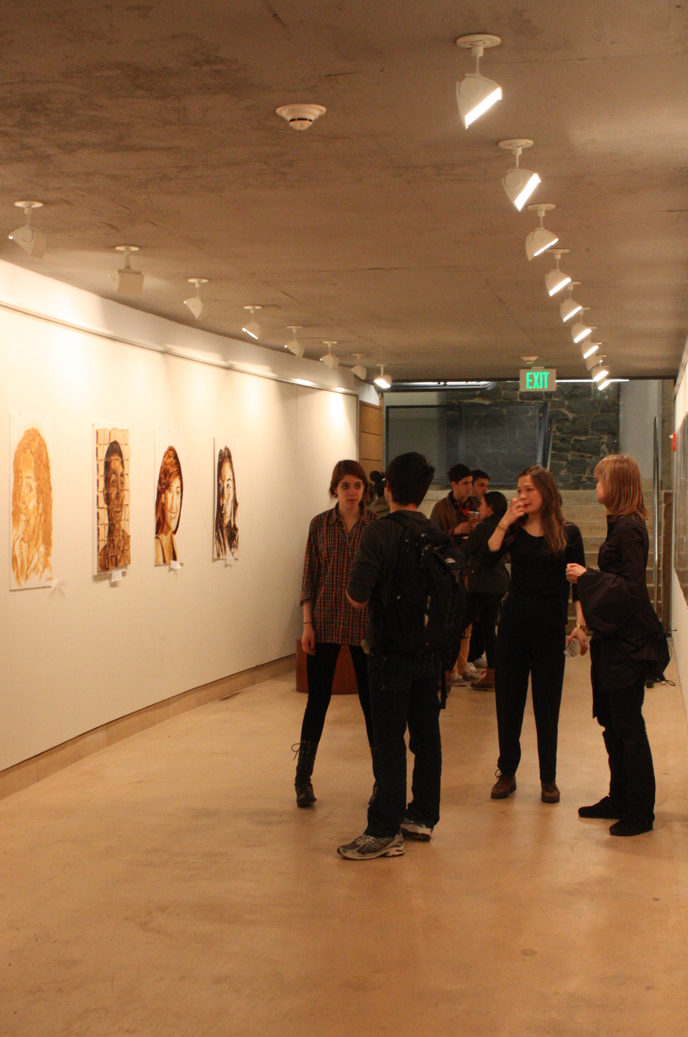 Students enjoy art